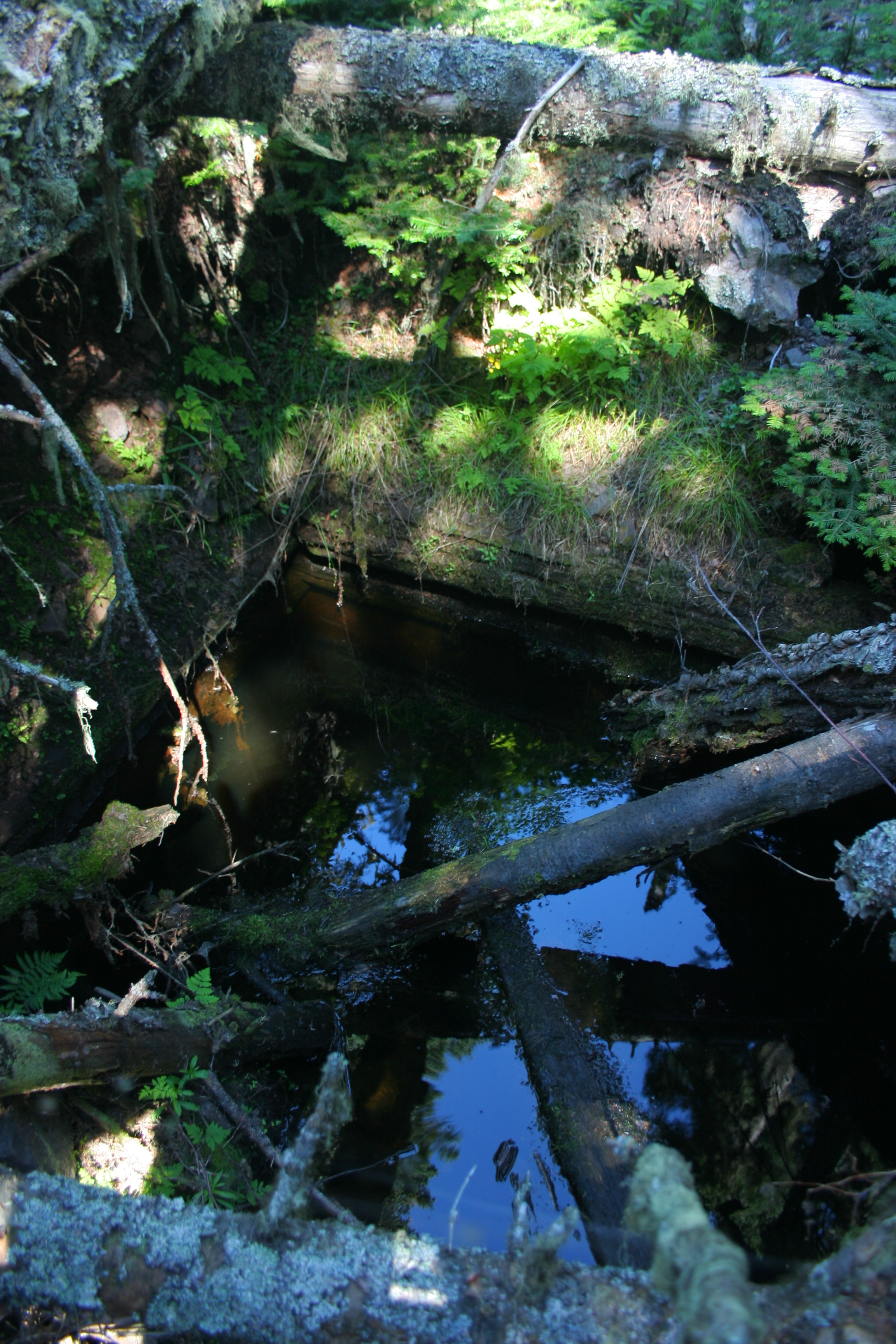 An abandoned mine shaft on Isle Royale National Park.